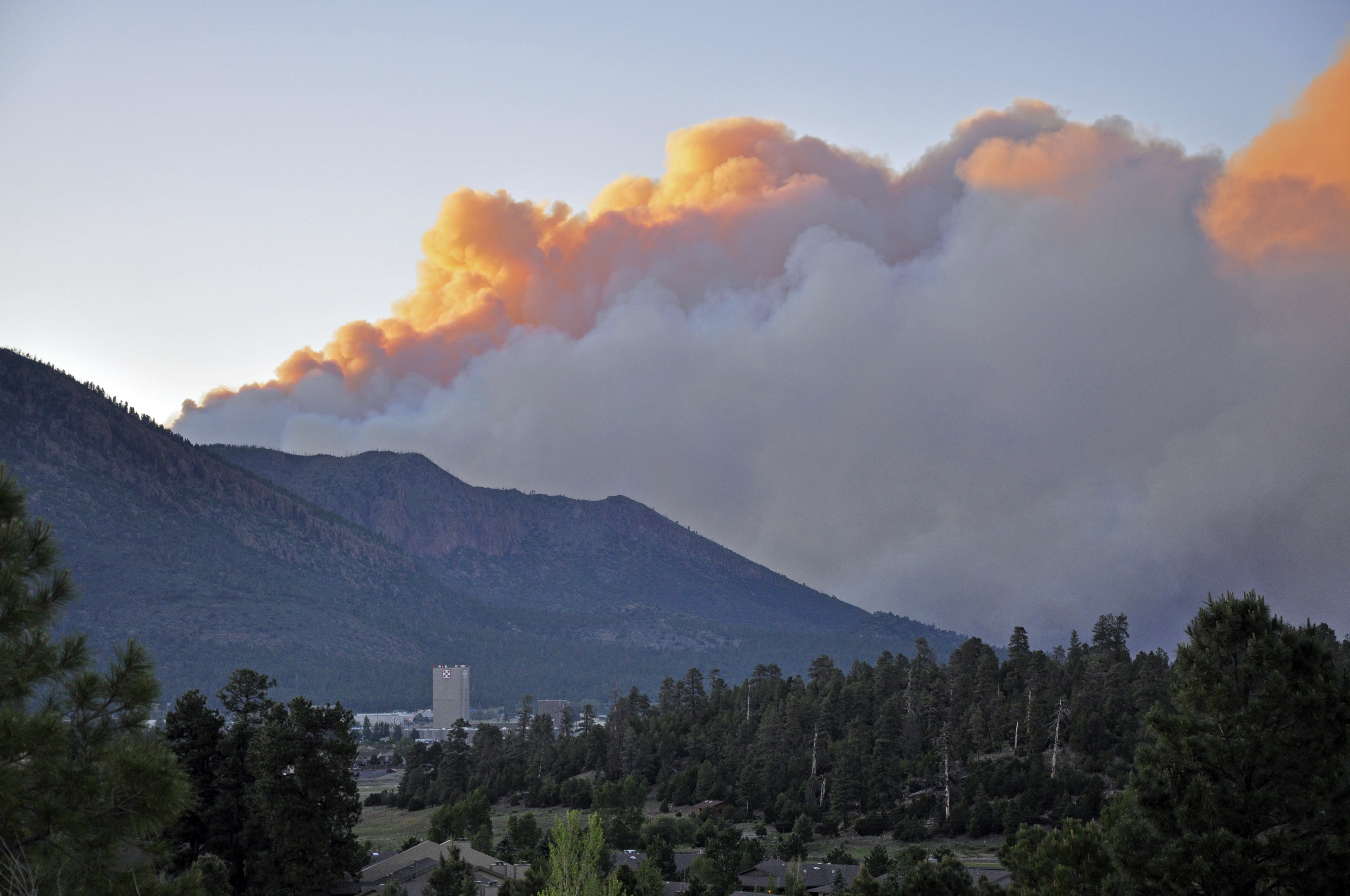 Smoke from the Schultz Fire rises as the sun sets for the day. Taken 6/20/10 by Brady Smith. Credit: USDA Forest Service, Coconino National Forest.